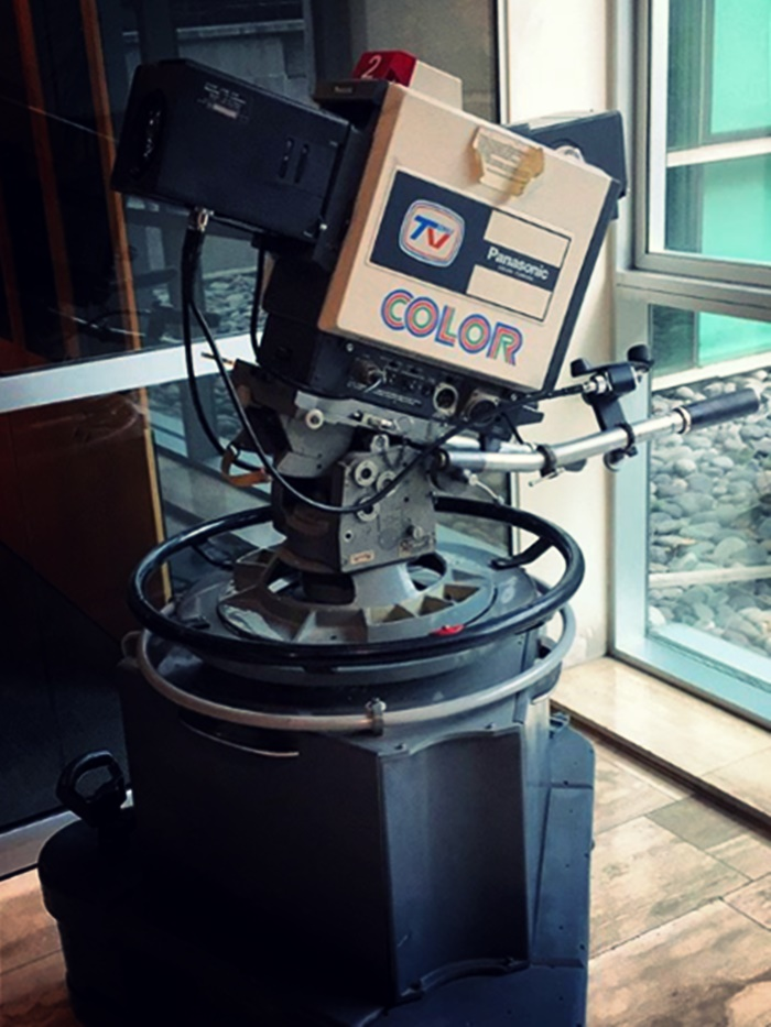 Image of an old Panasonic color-television camera used by Televisión Nacional de Chile during the during the 70s and 80s.